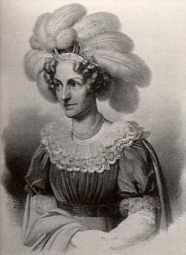 Portrait of Maria Theresia of Austria (1767-1827)